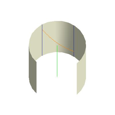 This figure depicts a null geodesic arc in the Born chart for Minkowski spacetime. In this chart, the world lines of Langevin observers, who ride on disks rotating with constant angular velocity, appear as vertical lines. The figure shows the world lines (blue vertical lines) of two Langevin observers who are riding on a rotating ring (the rim of a disk, if you like). The axis of cylindrical symmetry is shown as a green vertical line. The cylinder represents a surface of constant radius. The z coordinate is inessential and has been suppressed from this figure. This particular null geodesic arc represents the world line of a radar blip sent from one ring-riding observer to the other. As the figure shows, this null geodesic (which appears as a straight line in the cylindrical chart) appears in the Born chart to be bent toward the center. This figure was created by User:Hillman using Maple to export a jpg image and eog to convert this to a png image.